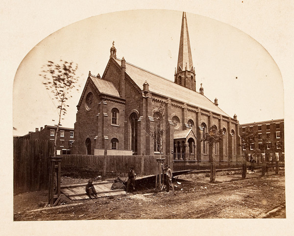 Saint Clement's Church by John Moran. Albumen print, Woodmere Art Museum, Charles Knox Smith Fund, 2003. A view of south and west facades of St. Clement's Church (Protestant Episcopal), Twentieth and Cherry Streets, Philadelphia, which was constructed between 1855 and 1859 after the designs of Philadelphia architect John Notman (1810-1865) in Romanesque Revival style.